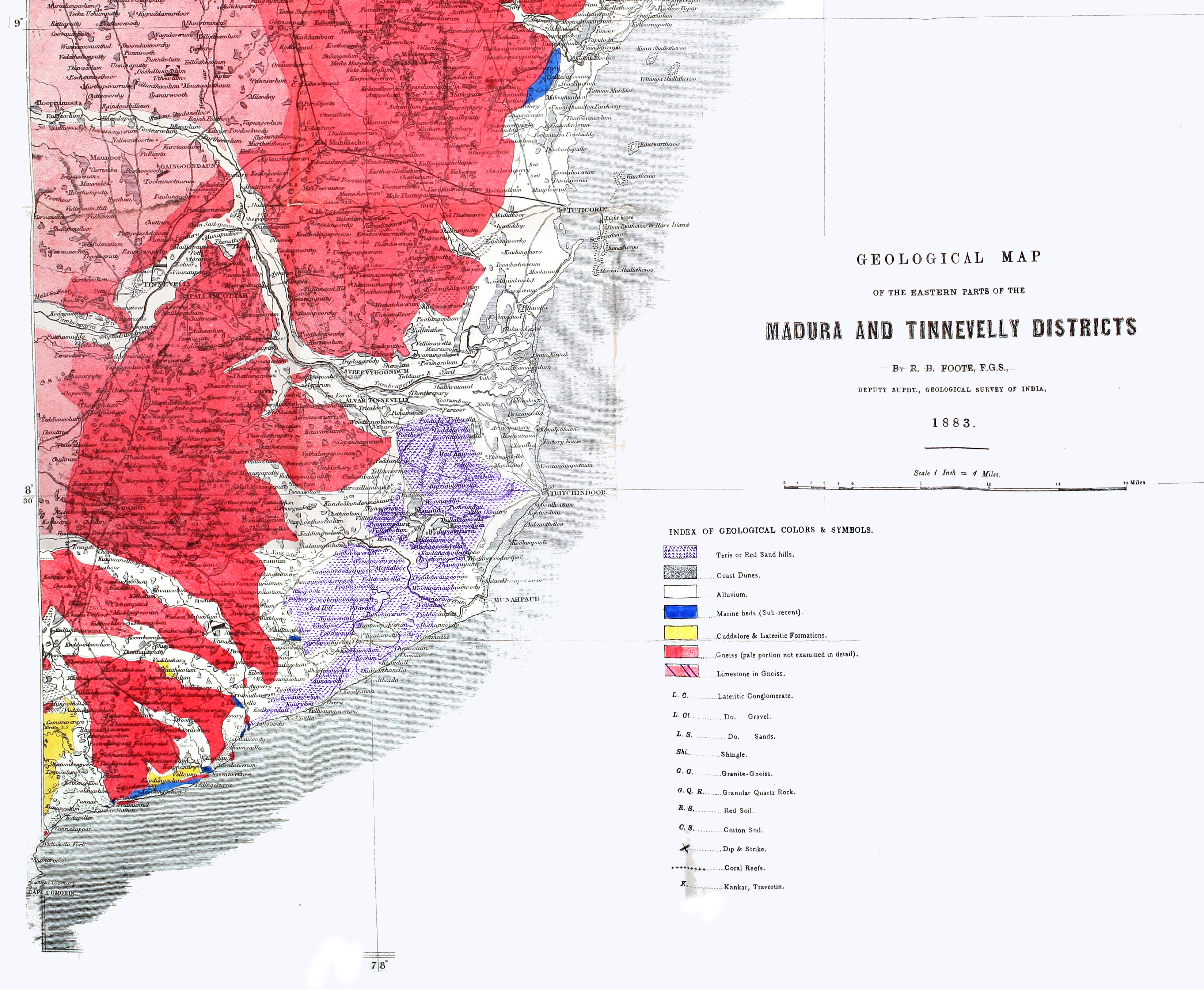 Geological map of southeastern India by R.B.Foote, cropped and adapted to highlight teri sand dune complex